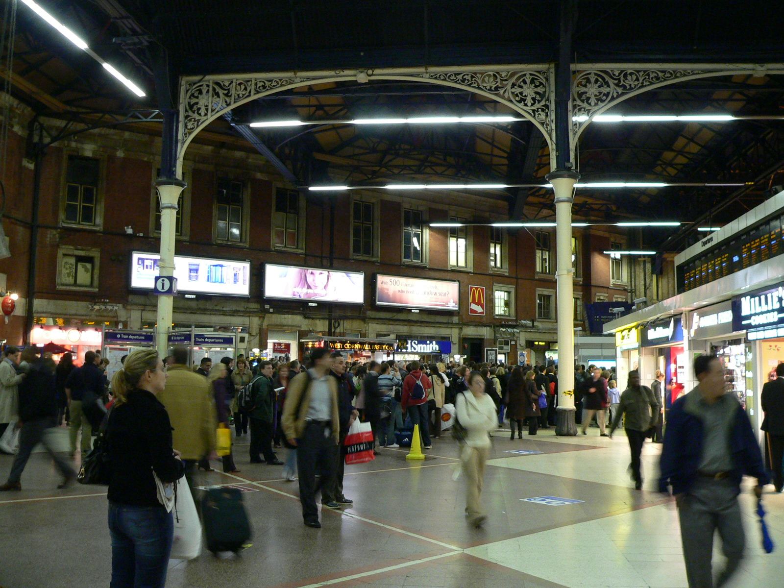 The eastern concourse at London Victoria station on 24 October 2005.